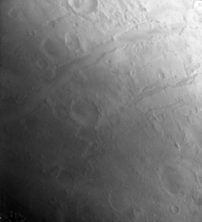 Oblique view of Nili Fossae on Mars. Jezero crater is near bottom center, and Hargraves is near center. Viking Orbiter 1 image from camera B (700A64). Red filter was used for this image. Resolution is about 330 m/pixel. Approximate north is at top. Image was despeckled. Emission Angle: 42.0 Incidence Angle: 81.0 Latitude: 21.9 Longitude: 77.0 Phase Angle: 110.9